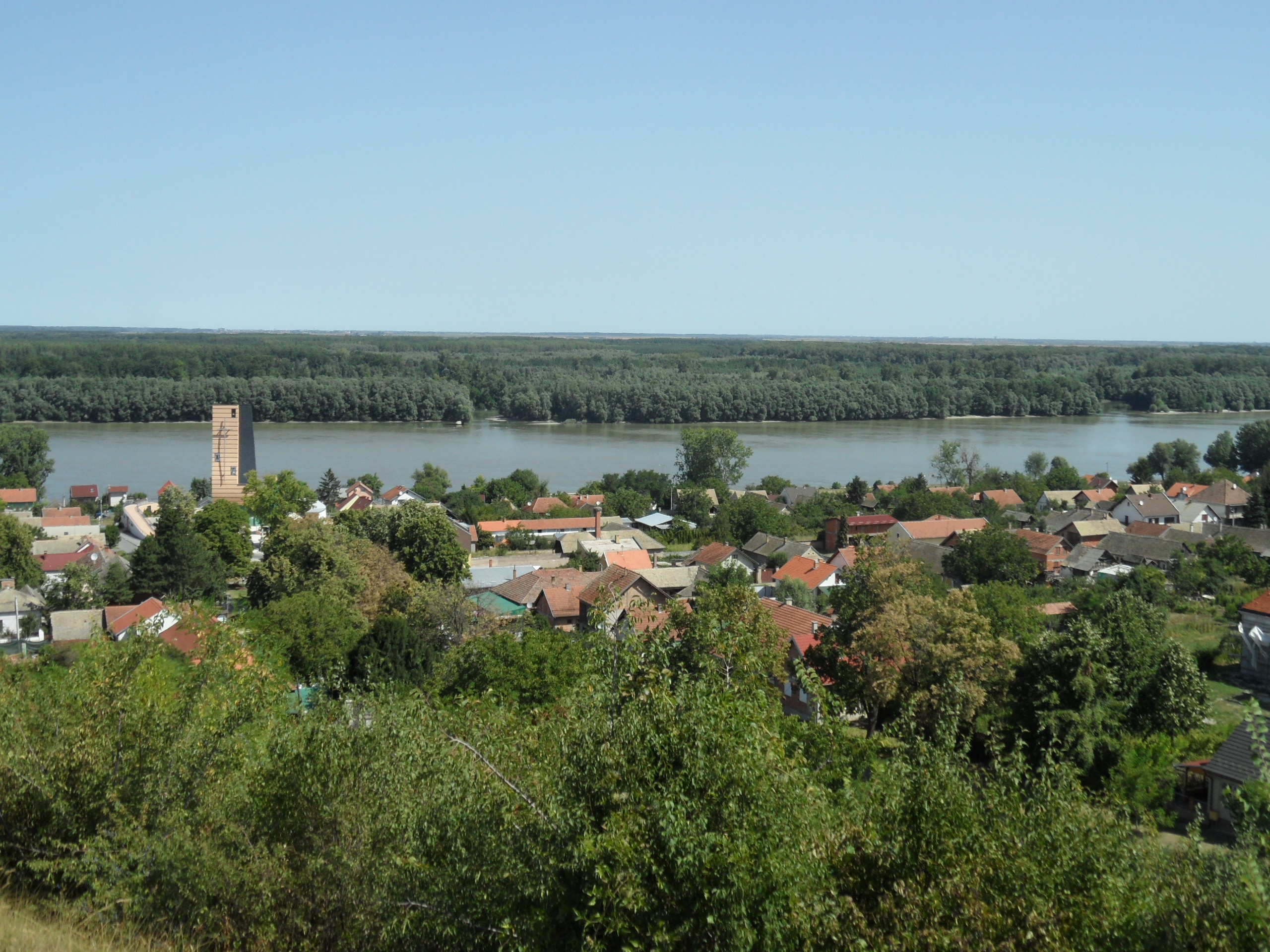 View on Aljmaš (Croatia) with the Danube in the background